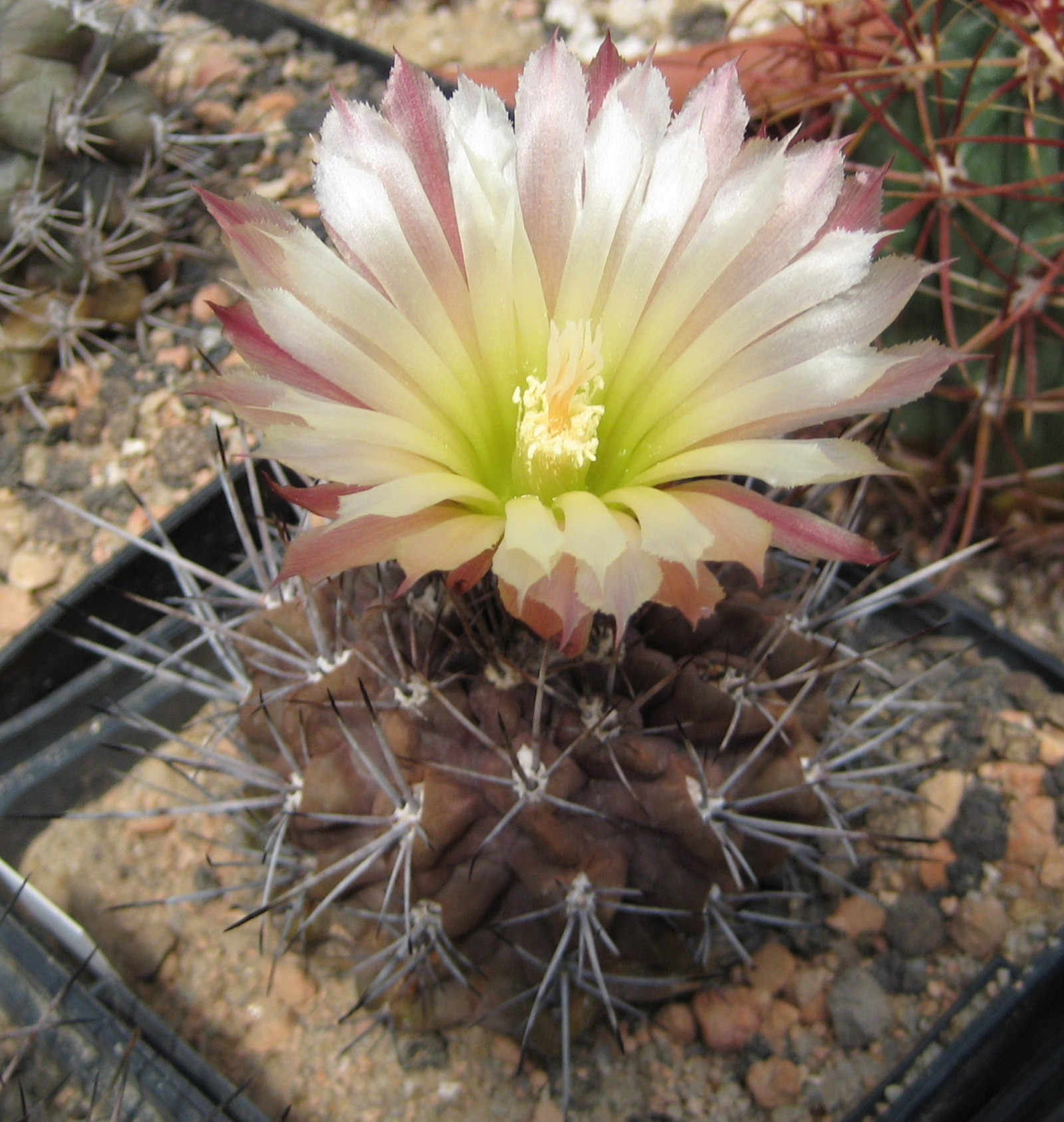 Eriosyce heinrichiana subsp. intermedia